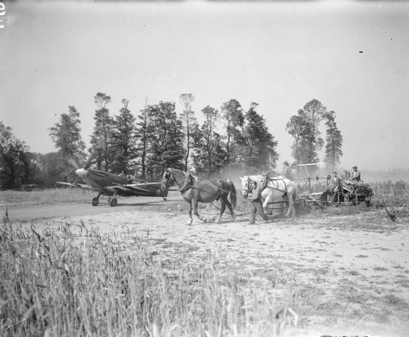 Royal Air Force- 2nd Tactical Air Force, 1943-1945. A Supermarine Spitfire Mark IX of No. 443 Squadron RCAF taxies to dispersal along the perimeter track at B2/Bazenville, Normandy, alongside a cornfield where French farmers are gathering in the wheat with a horse-drawn harvester and binder.